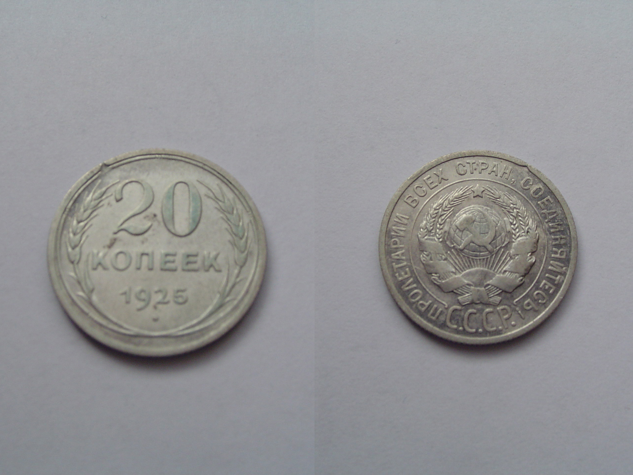 Soviet 20 kopeks coin, 1925